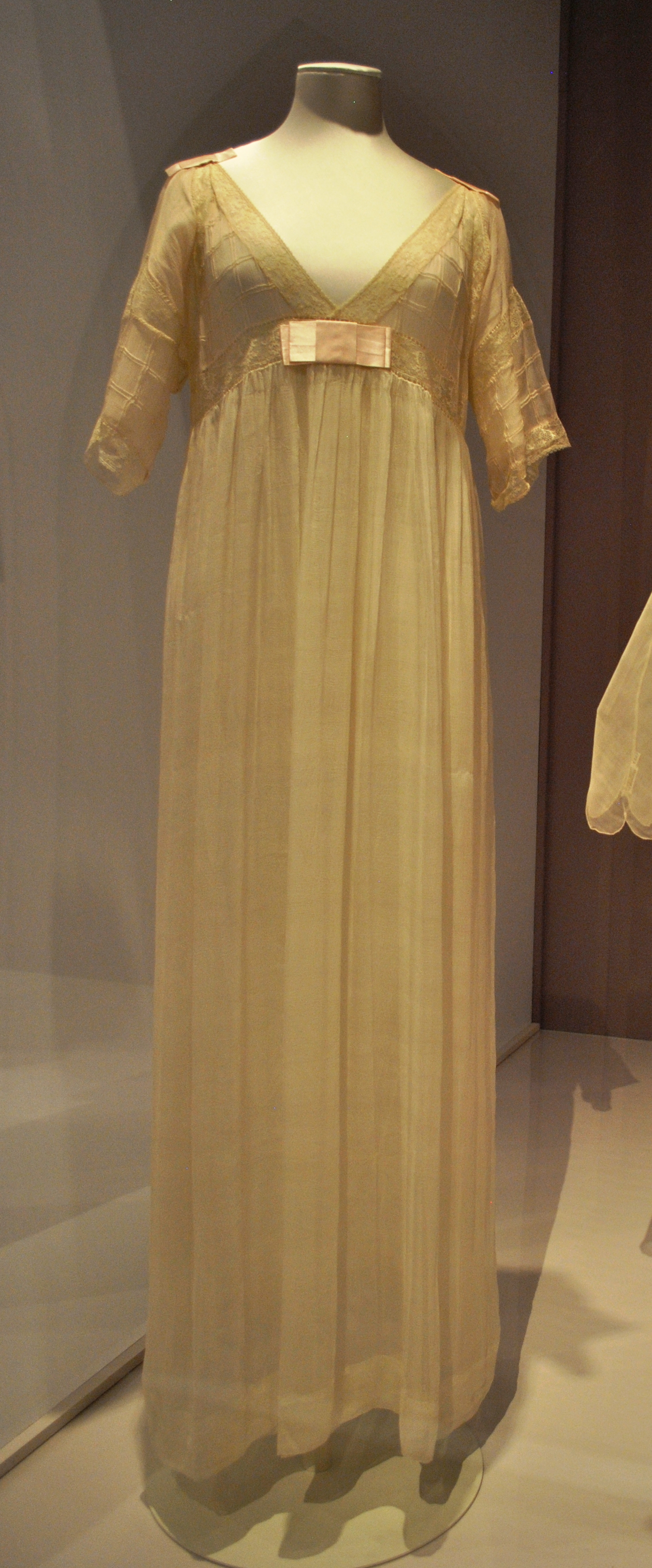 Nightgown by Lucile (Lucy, Lady Duff-Gordon), 1913